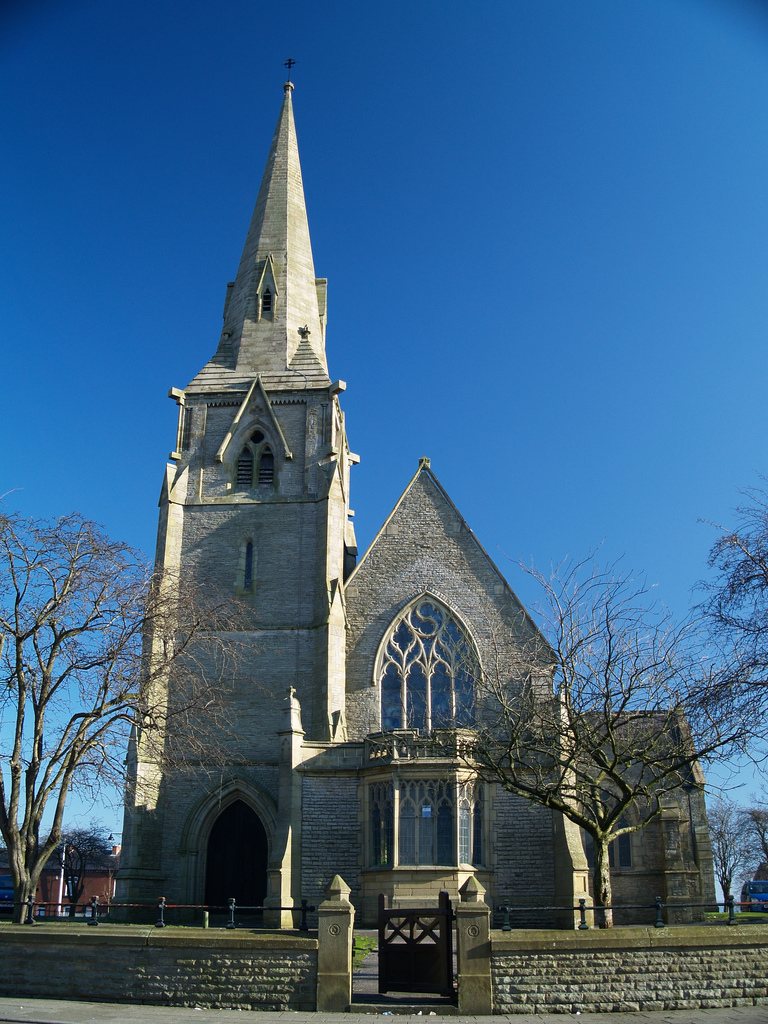 St Thomas' parish church, St Thomas' Circle, Coppice, Werneth, Oldham, Greater Manchester, seen from the southwest. The bay window is the baptistery, added in 1909.